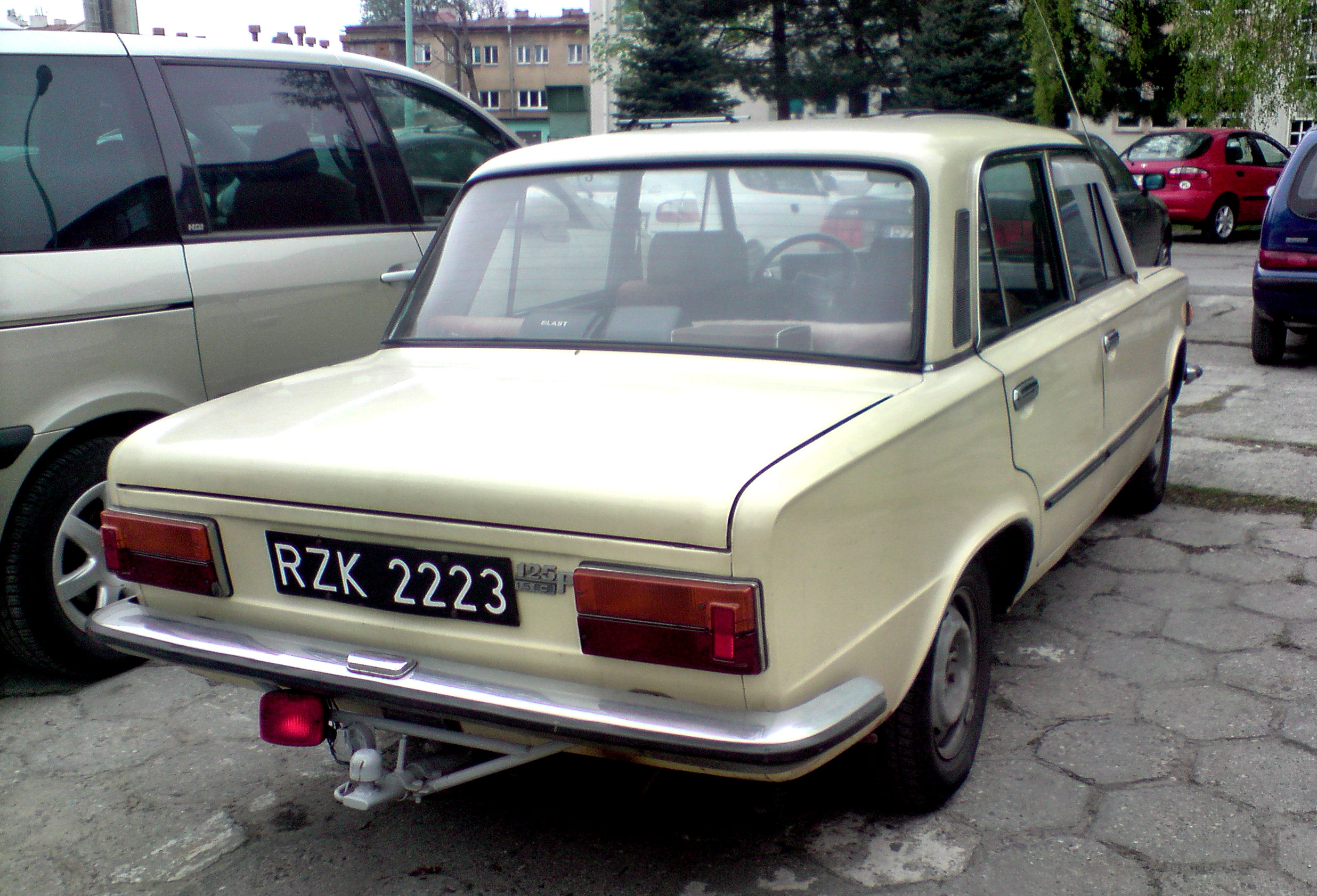 FSO 125p seen in Rzeszów, Poland.